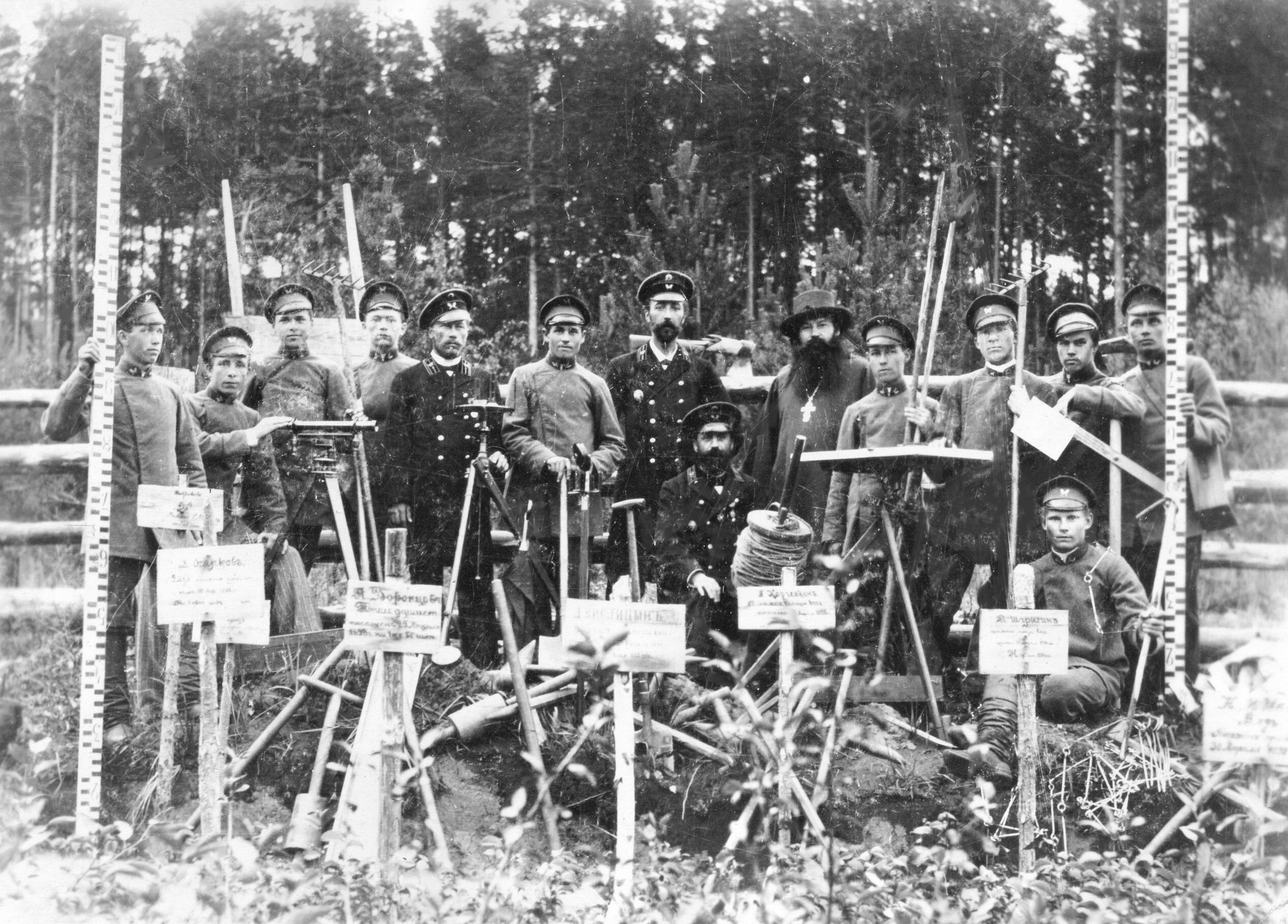 The first graduates Suvod forest school in the settlement Kukarka, 1898